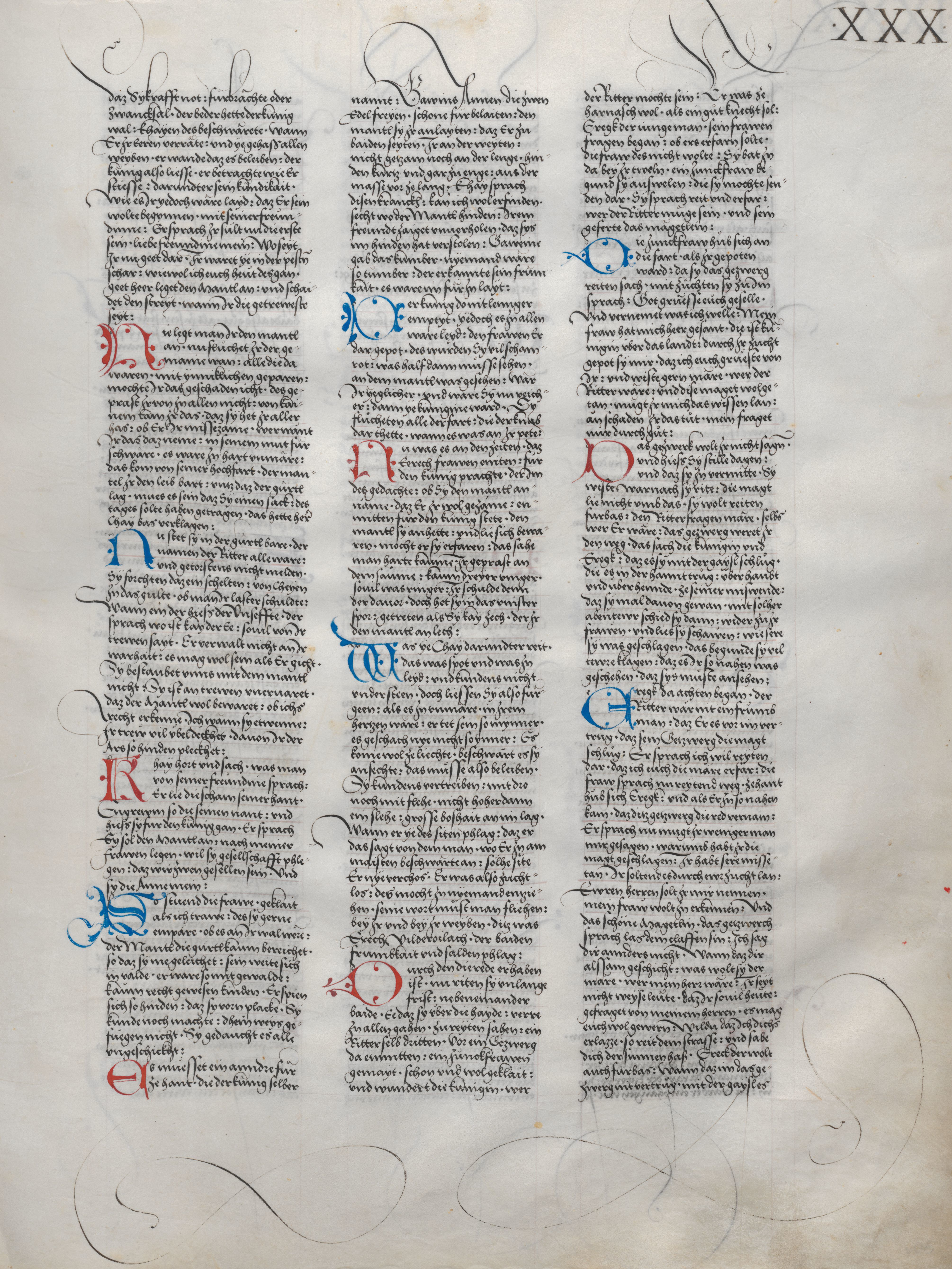 The Ambraser Heldenbuch, folio 30r. The start of Hartmann von Aue's Erec